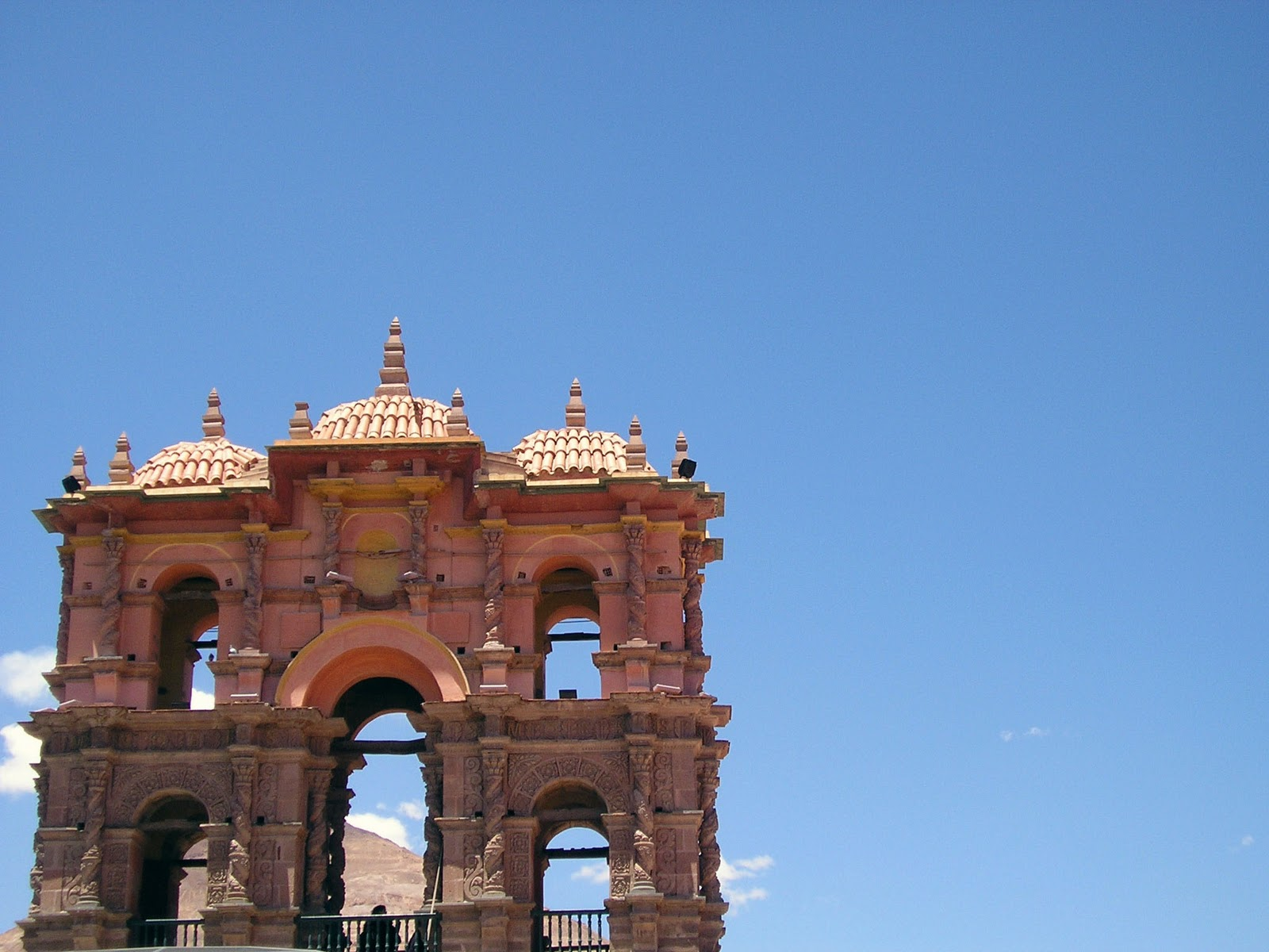 Torre de la compañia